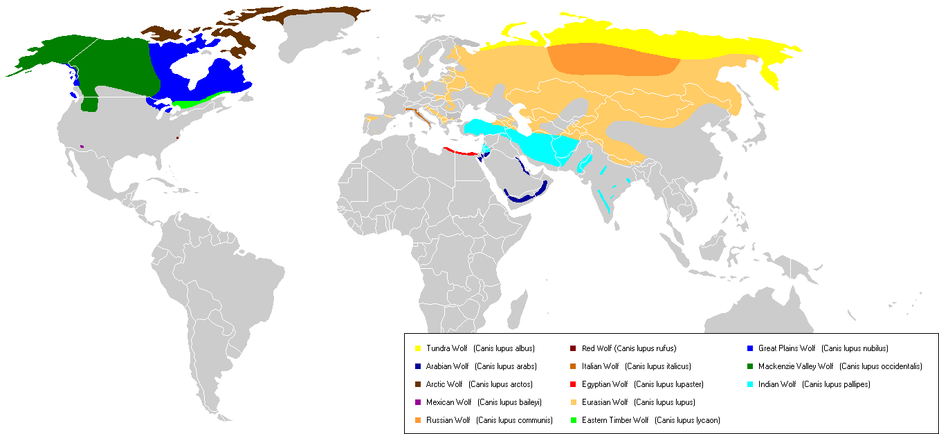 Canis lupus distribution.